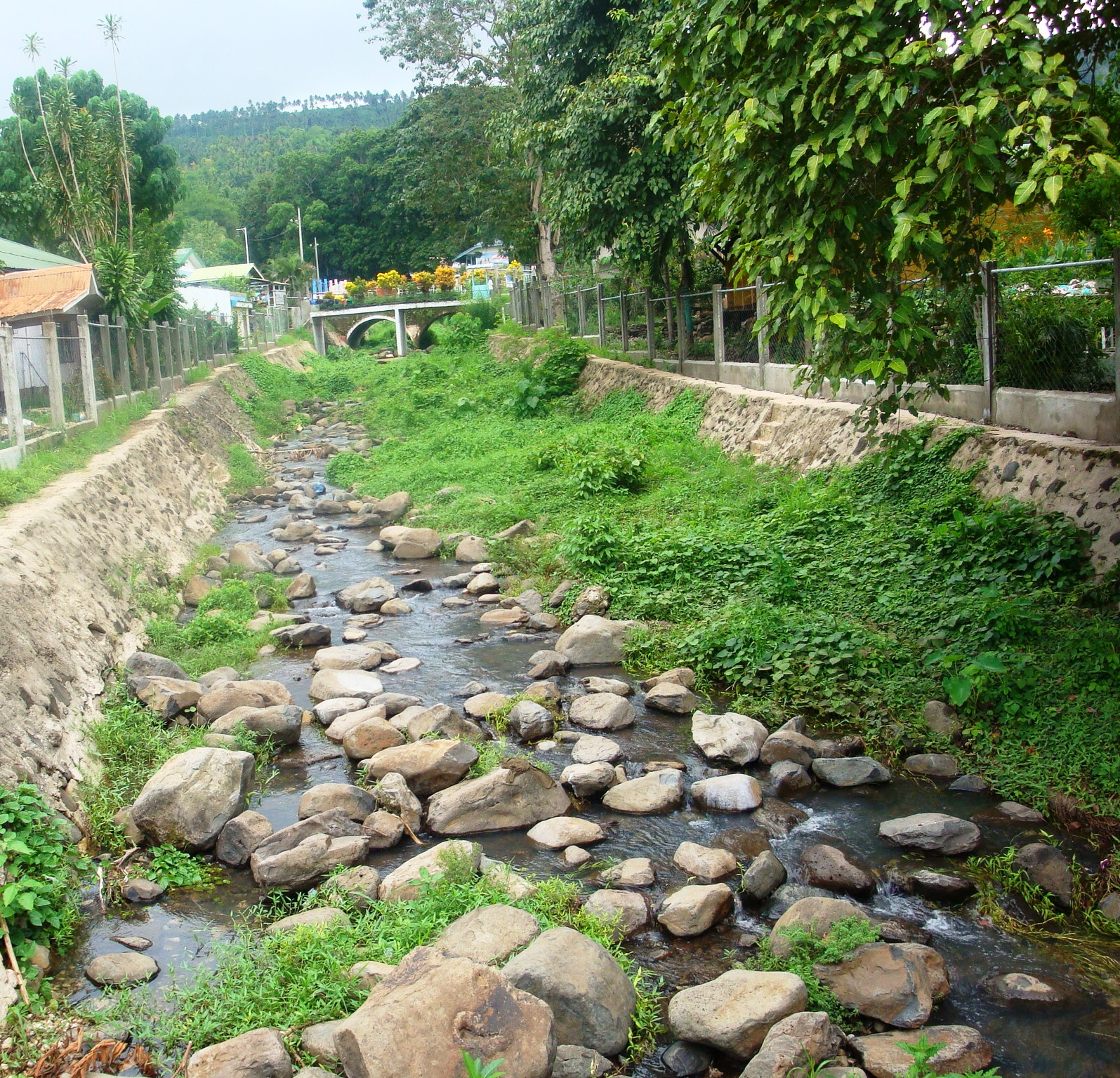 The river in the center of the town. The river where the name Margosatubig was originated.